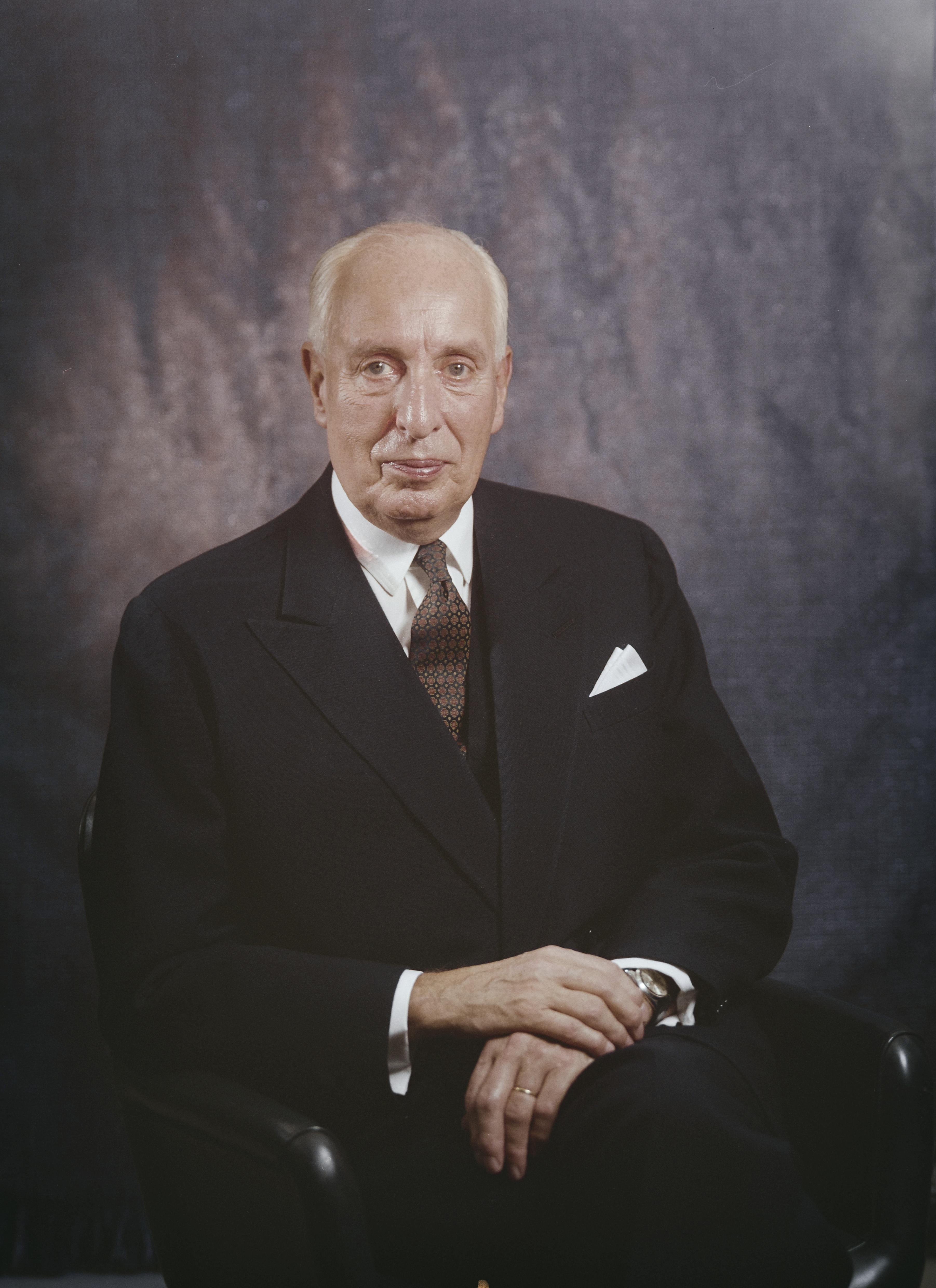 Photograph of the Finnish lawyer and diplomat Osmo Orkomies (1912–1996).